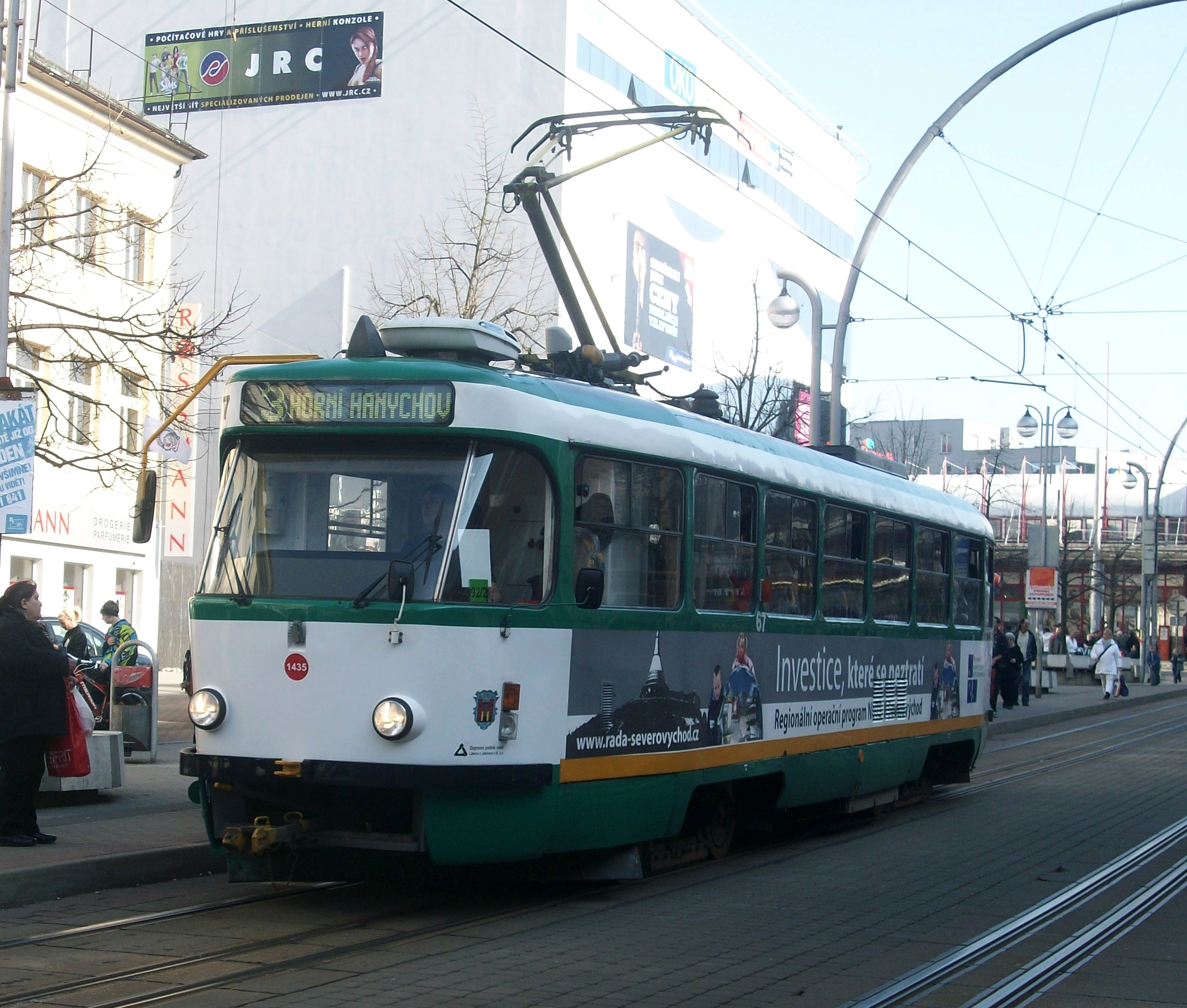 Tatra T3, Liberec